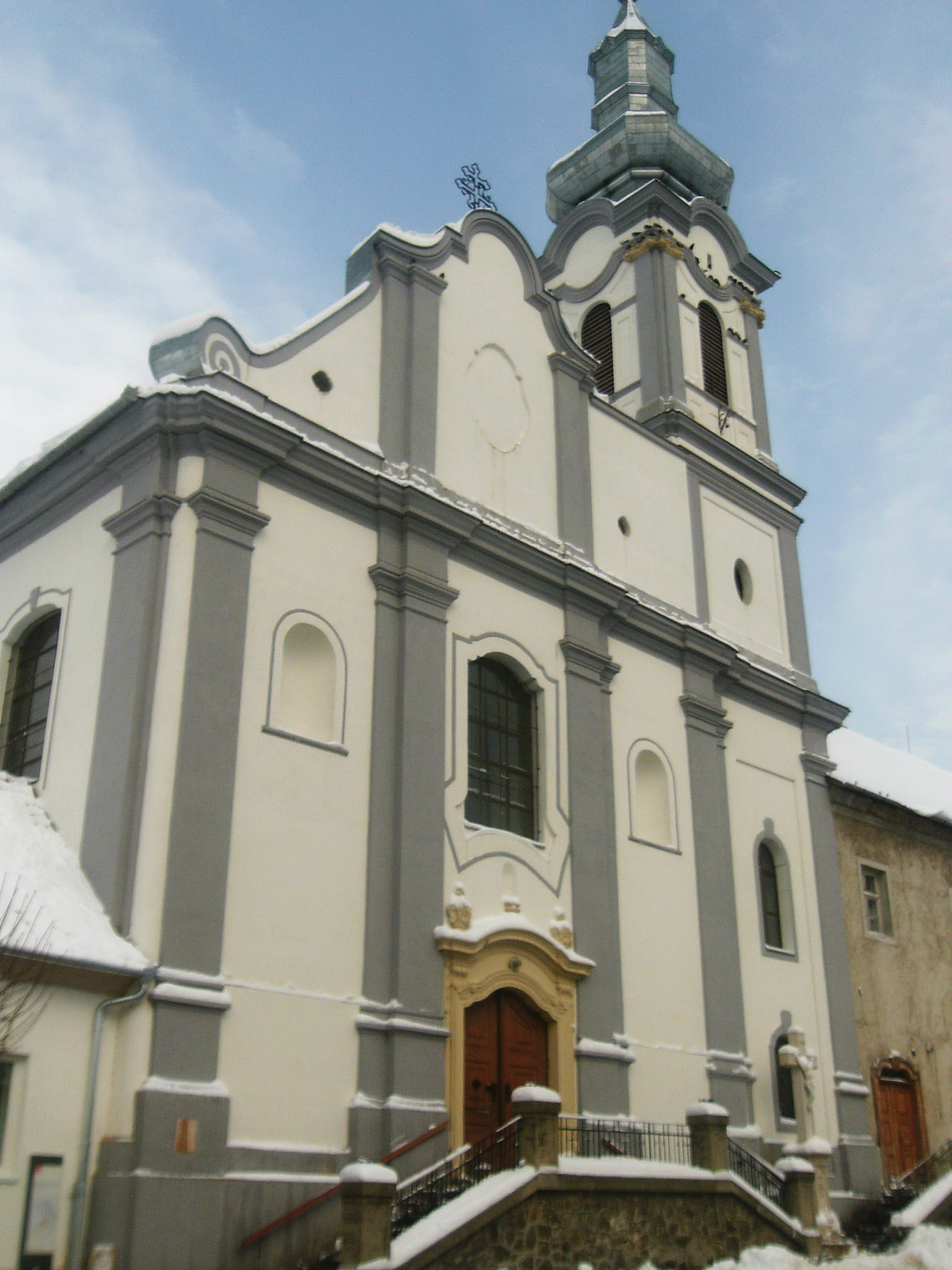 Saint Anne Franciscan Church, Dunaföldvár, Hungary This is a photo of a monument in Hungary. Identifier: 8603